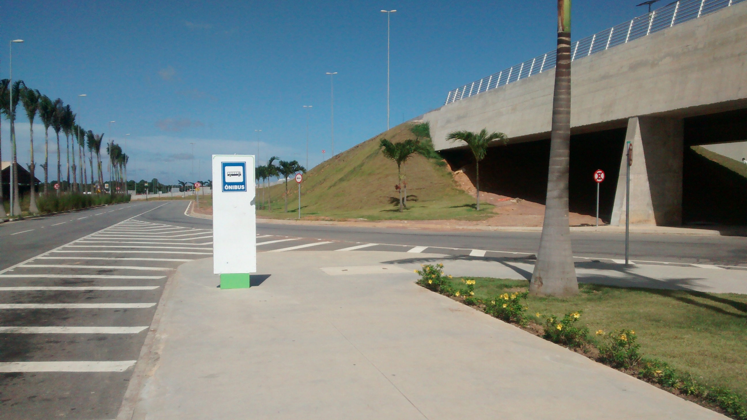 Bus stop at Aeroporto Internacional Governador Aluízio Alves (city of Natal, Brazil)